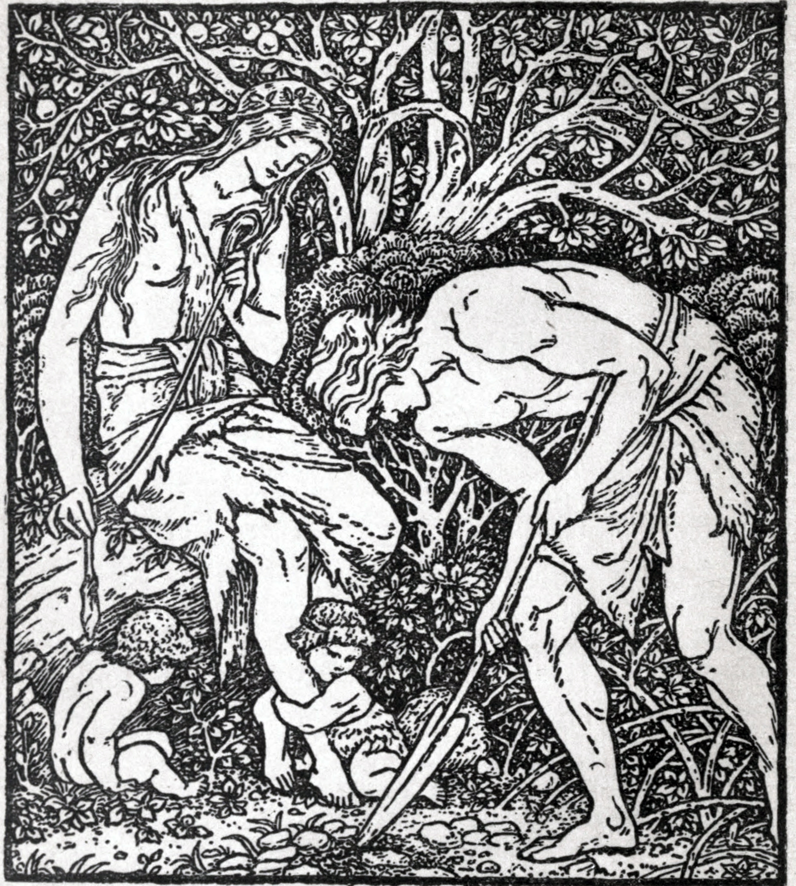 Artwork by E. Burne-Jones, April 1888, for the first book edition of William Morris' A Dream of John Ball. Illustrates the couplet "When Adam delved and Eve span / Who was then the gentleman?" which had international popularity in several Germanic languages as an equalitarian slogan during the medieval period.